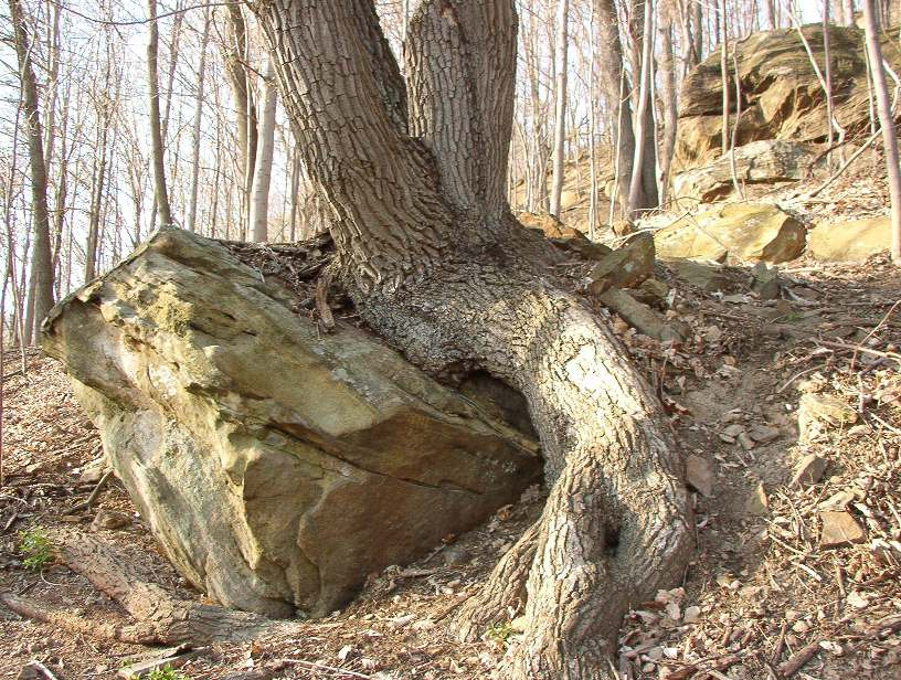 Photo taken by John Knouse, Athens, Ohio, 2005